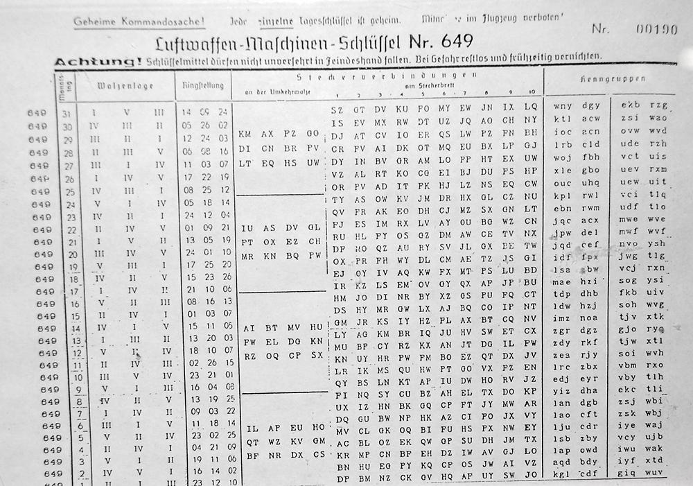 A key list for the German Luftwaffe (Air Force) Enigma Machines. Translation of text at top:“Secret Command Document! Every individual daily key is secret. Forbidden to bring on aircraft. Luftwaffe Machine Key No.649 Attention! Key material must not fall into enemy hands intact. In case of danger destroy throughly and early." Column contents: Day of month, Rotor order, Ring settings, Jumper plug connections (for reflector and plugboard) and Identifier groups. The presence of jumper settings for the reflector (Umkehrwalze) is an enhancement first observed by the British at the start of 1944.